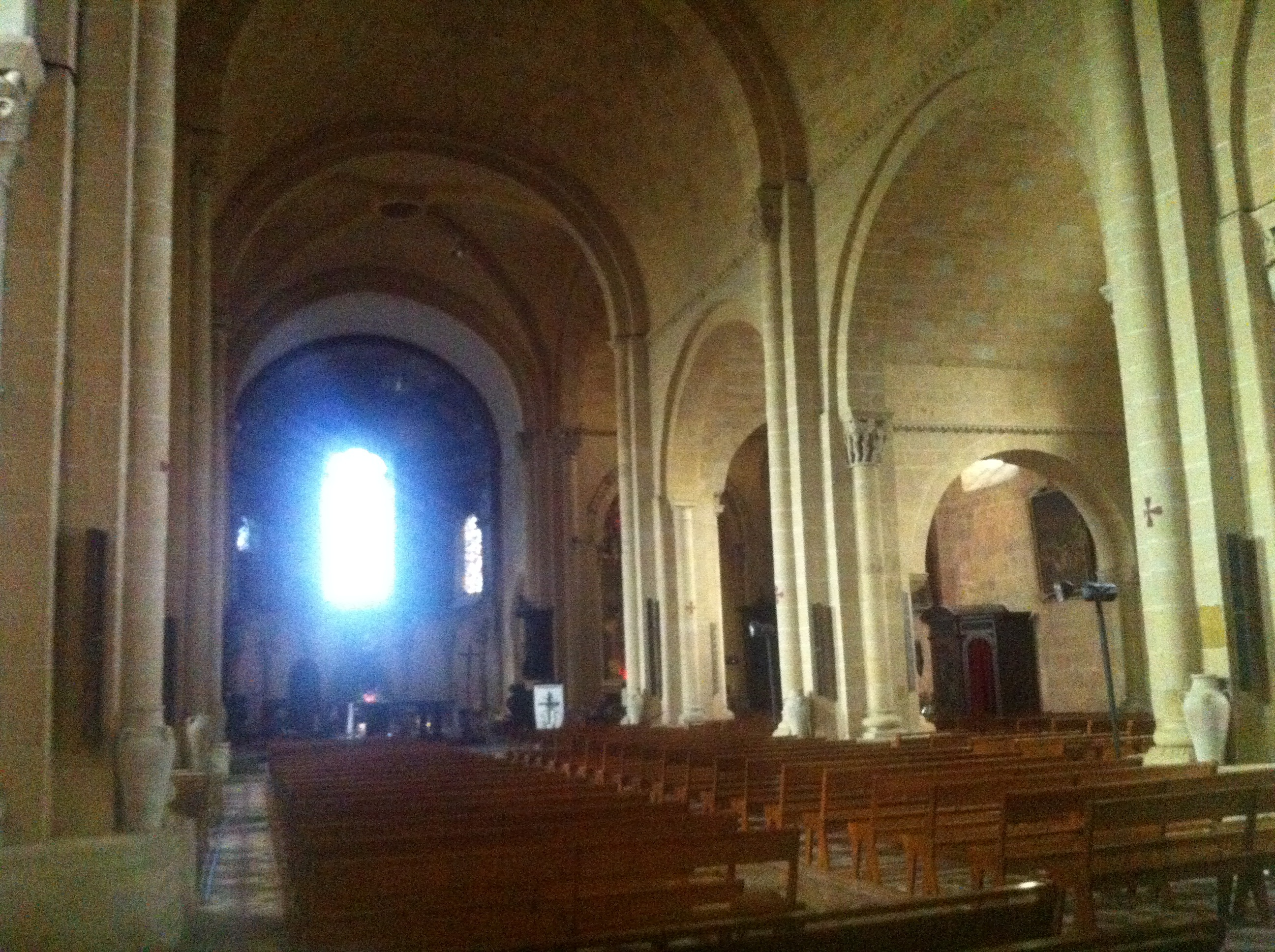 Lescar, (64) southwest France has one of the most beautiful cathedrals in France. An eleventh century roman style building, very simple and inspiring, built on a hill facing the Pyrénées mountains. Dating back to the first crusaders, it is a fortified cathedral designed to protect the local people from the raids of the scandinavian Norsemen who destroyed the old city of Beneharnum some decades before. It was then renamed Lescar and was the religious center of the Béarn county and then Navarre kingdom for centuries. It is no longer the siege of a bishop and is only a local parish but is has a wonderful atmosphere of quiet and devotion that is worth visiting!